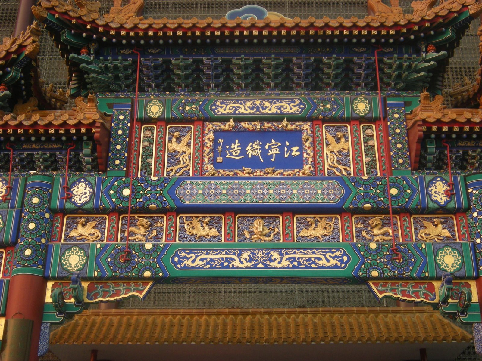 Jiang Ning Zhi Zao Of Nanjing